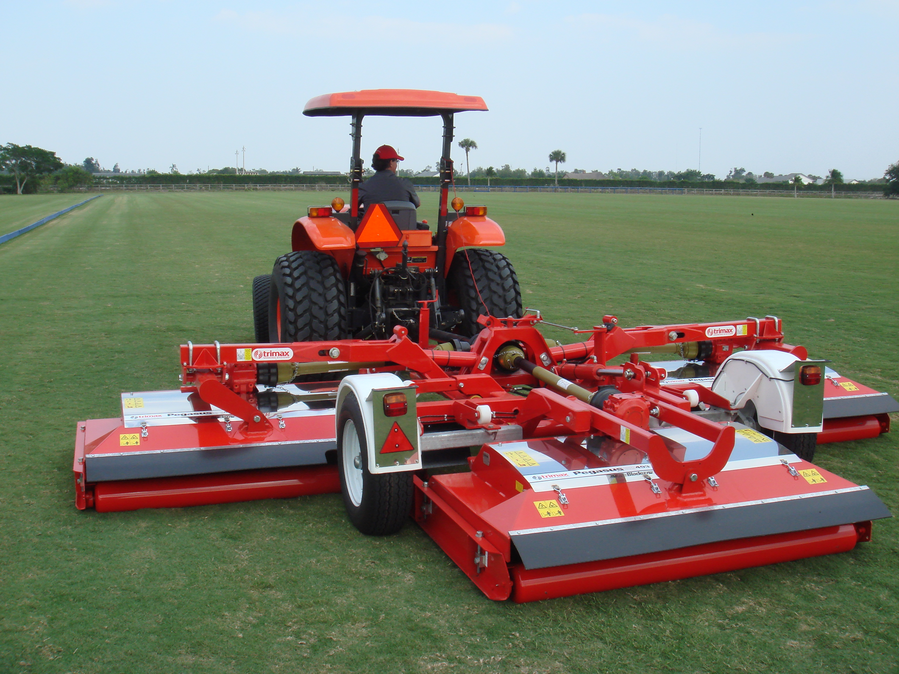 Tractor with a Trimax PegasusS3 – G3 493 double roller mower (2008; "S3" for series 3; three independent decks with over all 4,93 m cutting width, multi-spindled rotary mower system with front and rear rollers)